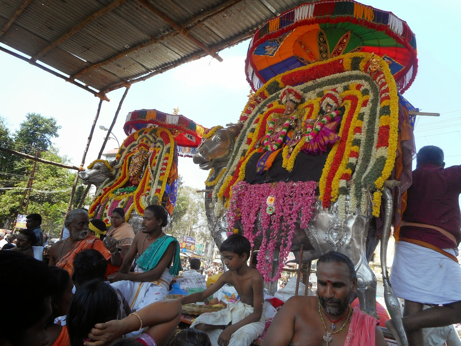 தீர்த்தவாரியில் கும்பேஸ்வரர் மங்களாம்பிகை